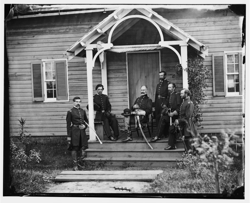 Culpeper, Virginia. Gen. Marsena R. Patrick and staff.